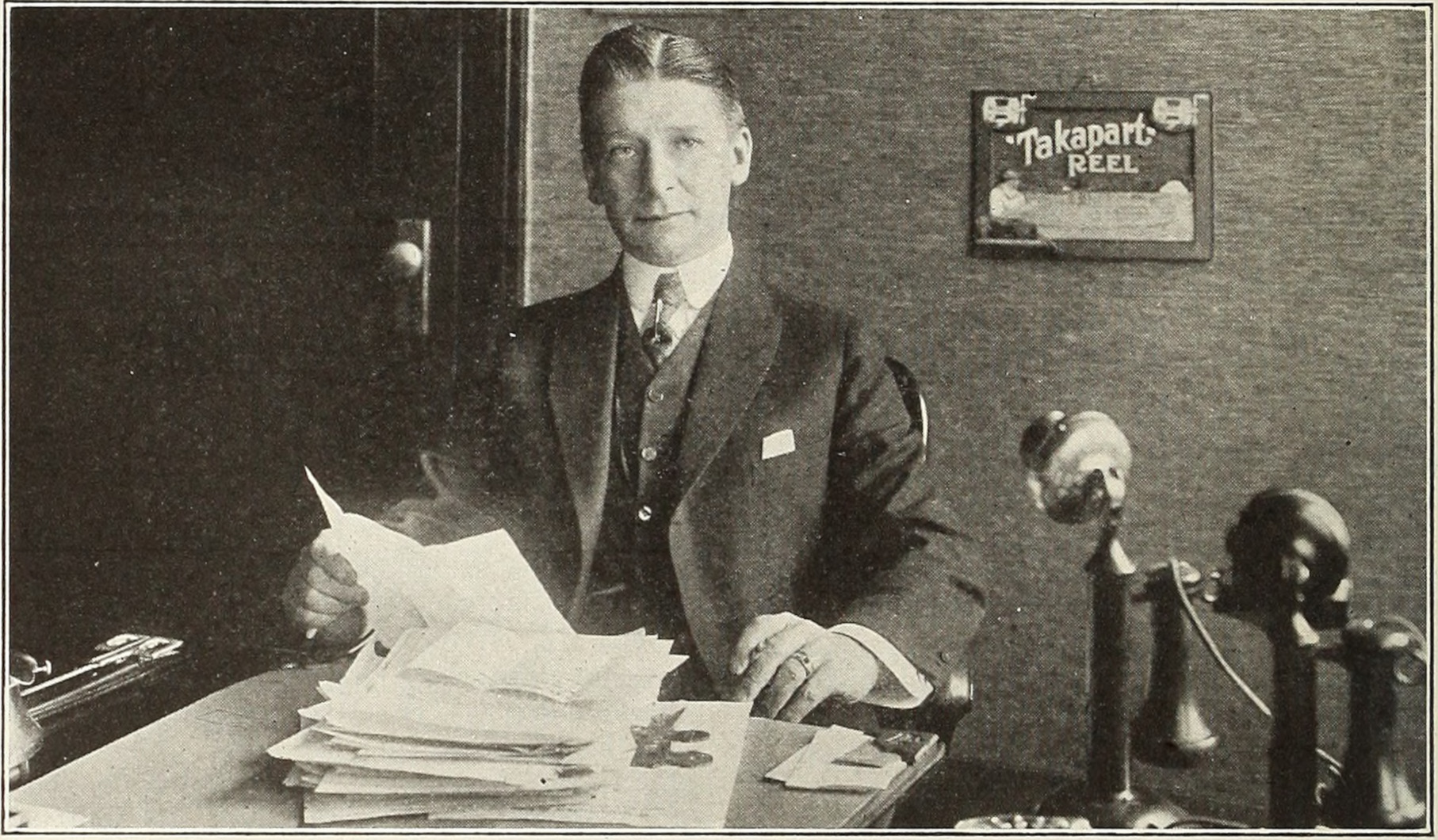 Otto Heinemann, founder and owner of OKeh Records